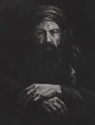 Portrait of the 17-th century Bulgarian noble Rostislav Stratimirovic, Prince of Tarnovo.